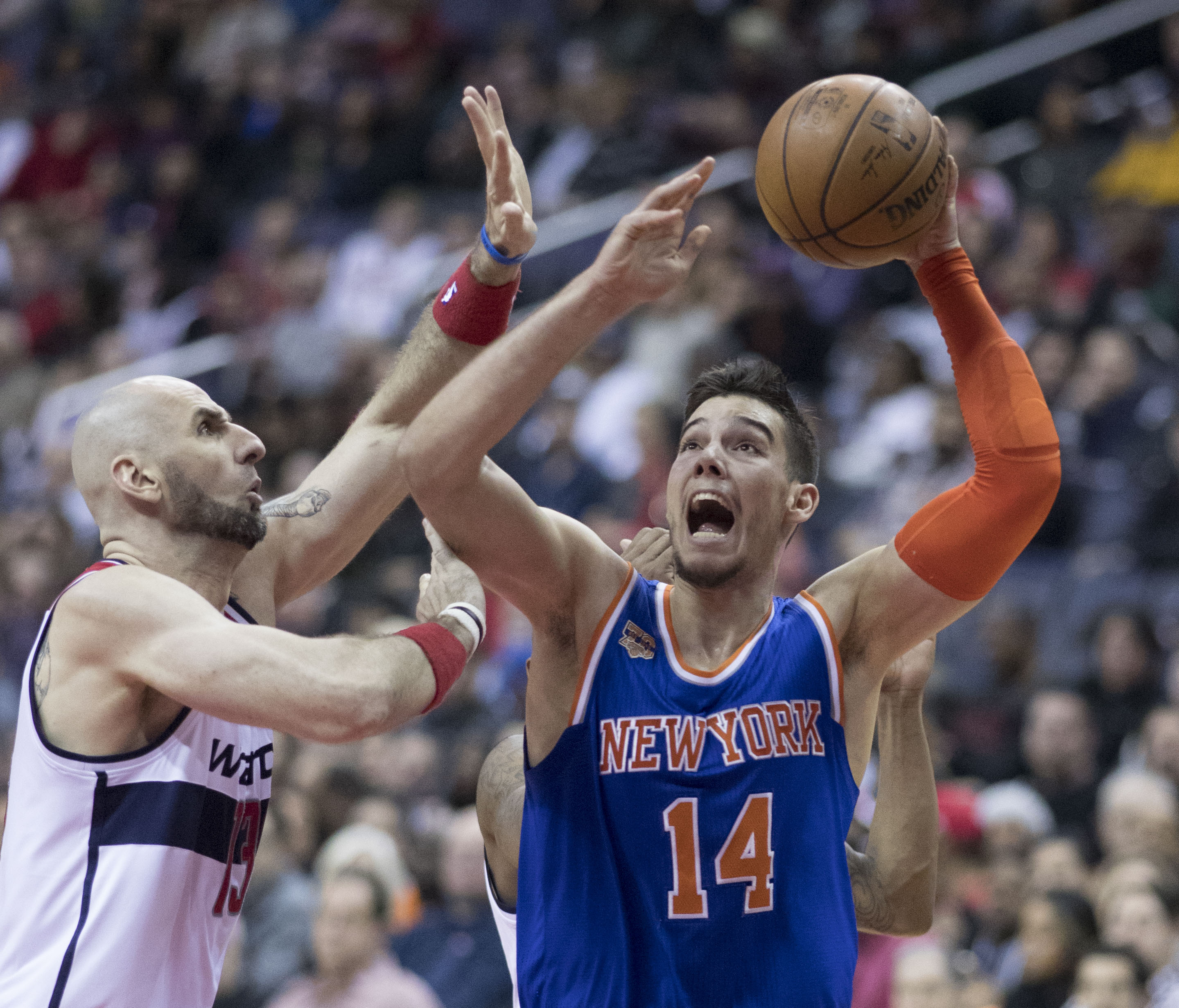 Knicks at Wizards 1/31/17